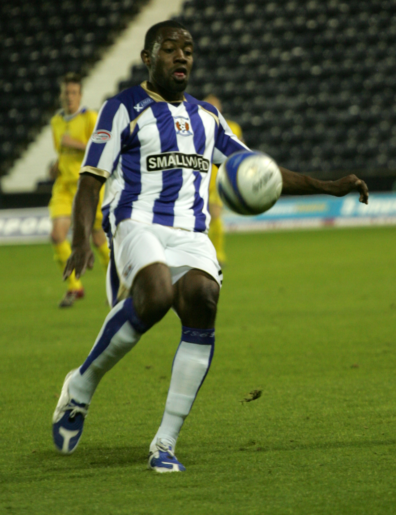 Simon Ford